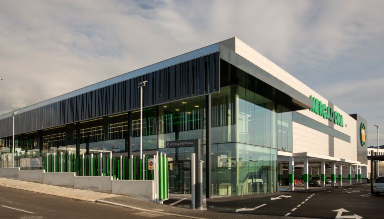 Mercadona Nuevo Modelo de Tienda